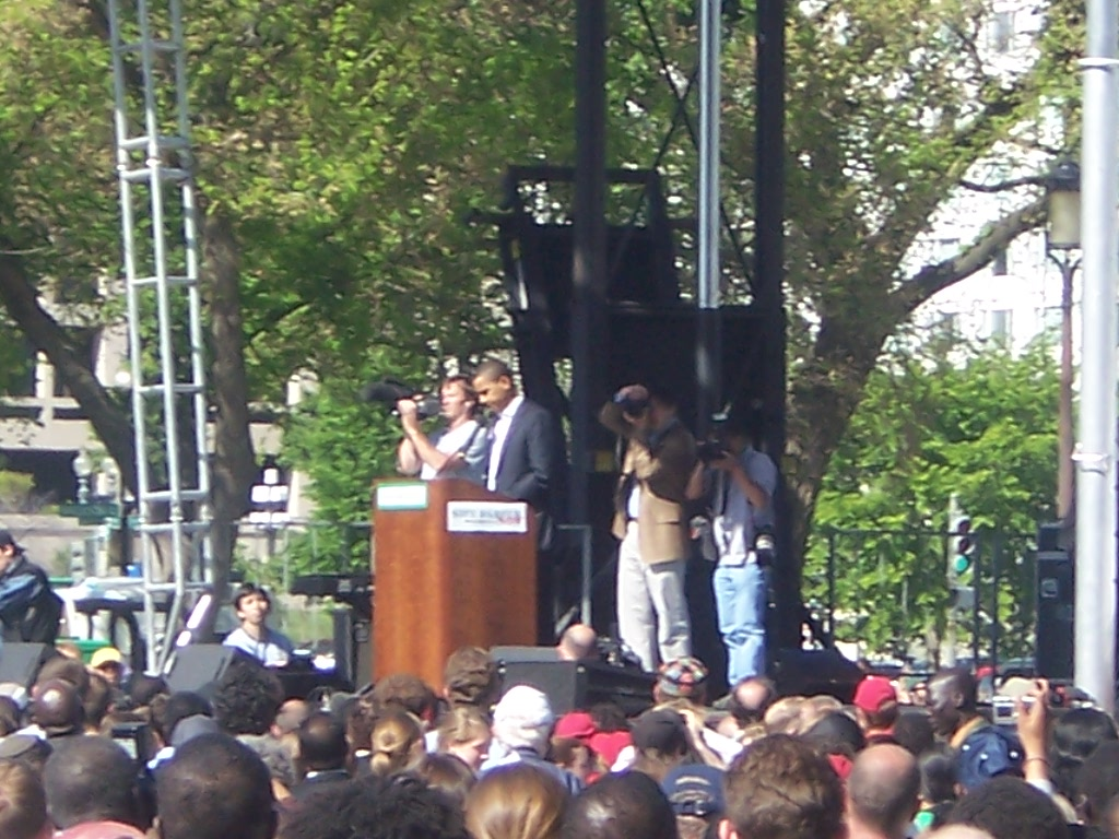 Barack Obama speaking at the darfur rally on the national mall